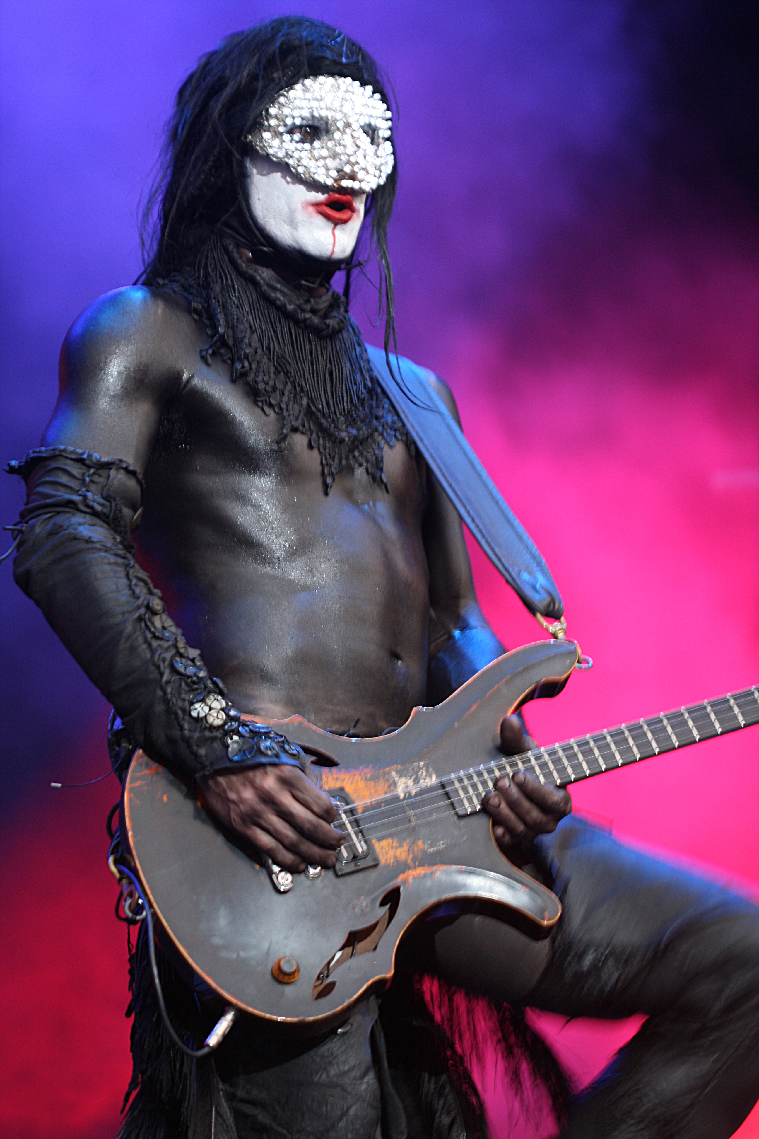 Wes Borland, guitarist of Limp Bizkit, on the Alterna Stage of Rock im Park-Festival 2013. Festivalsommer This photo was created with the support of donations to Wikimedia Deutschland in the context of the CPB project "Festival Summer".